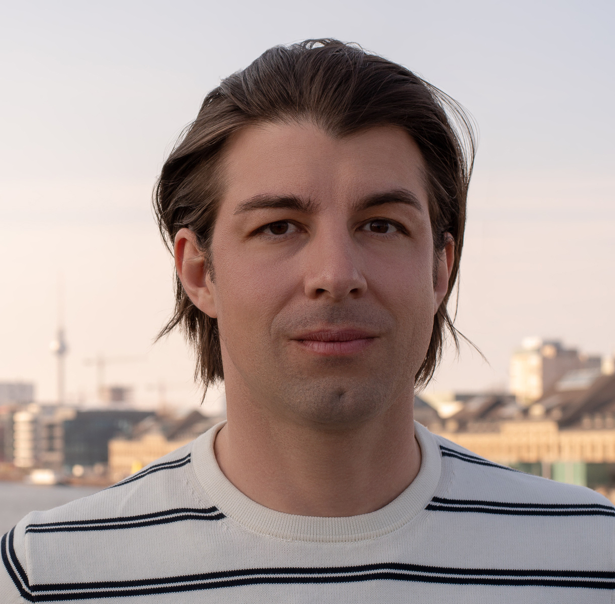 Andreas Kaplan, Professor of Marketing and Social Media / Dean and Rector of ESCP Europe